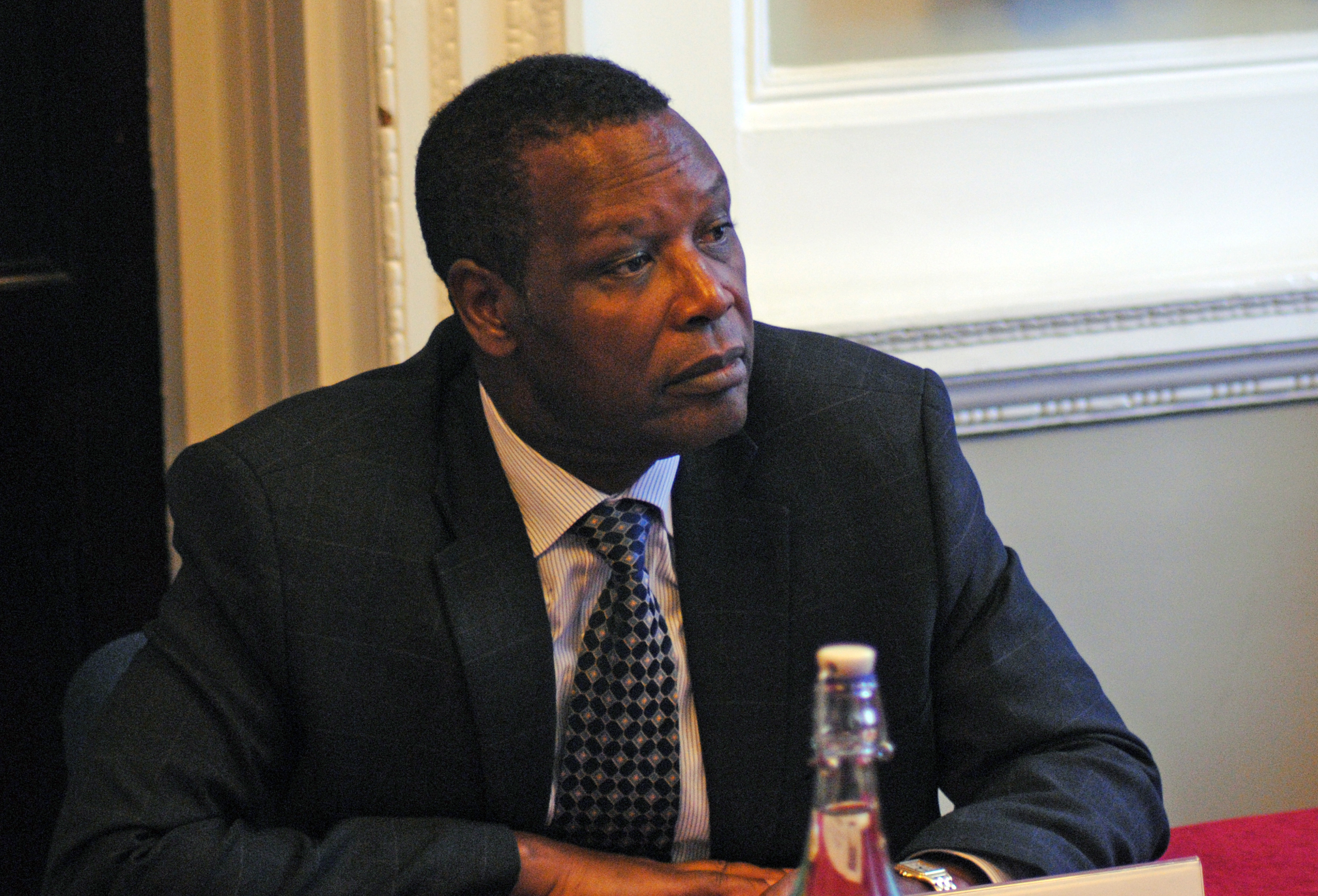 Pierre Buyoya, African Union Special Representative, Mali and the Sahel; President of Burundi (1987-1993, 1996-2003) at the Chatham House event African Union Perspectives on Mali and the Sahel, 26 March 2013